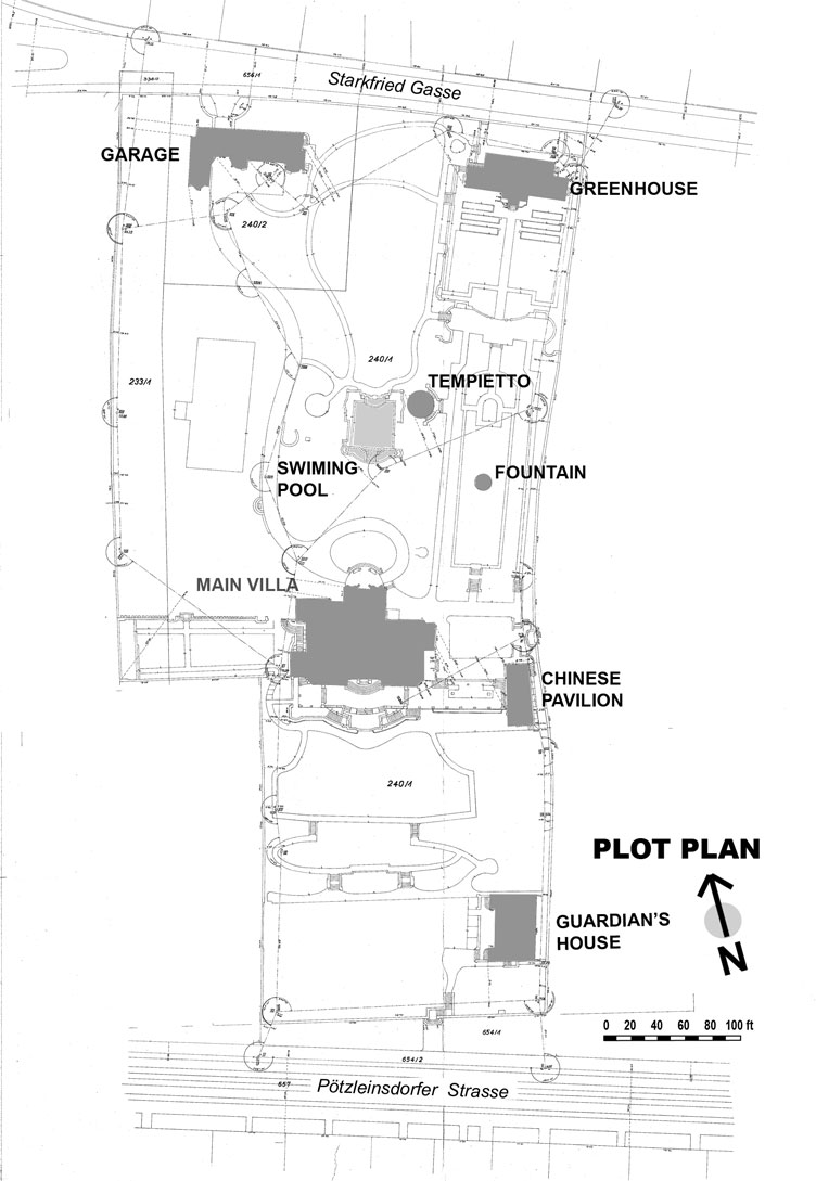 Site map of the former Villa Regenstreif, Pötzleinsdorf, Vienna, Austria